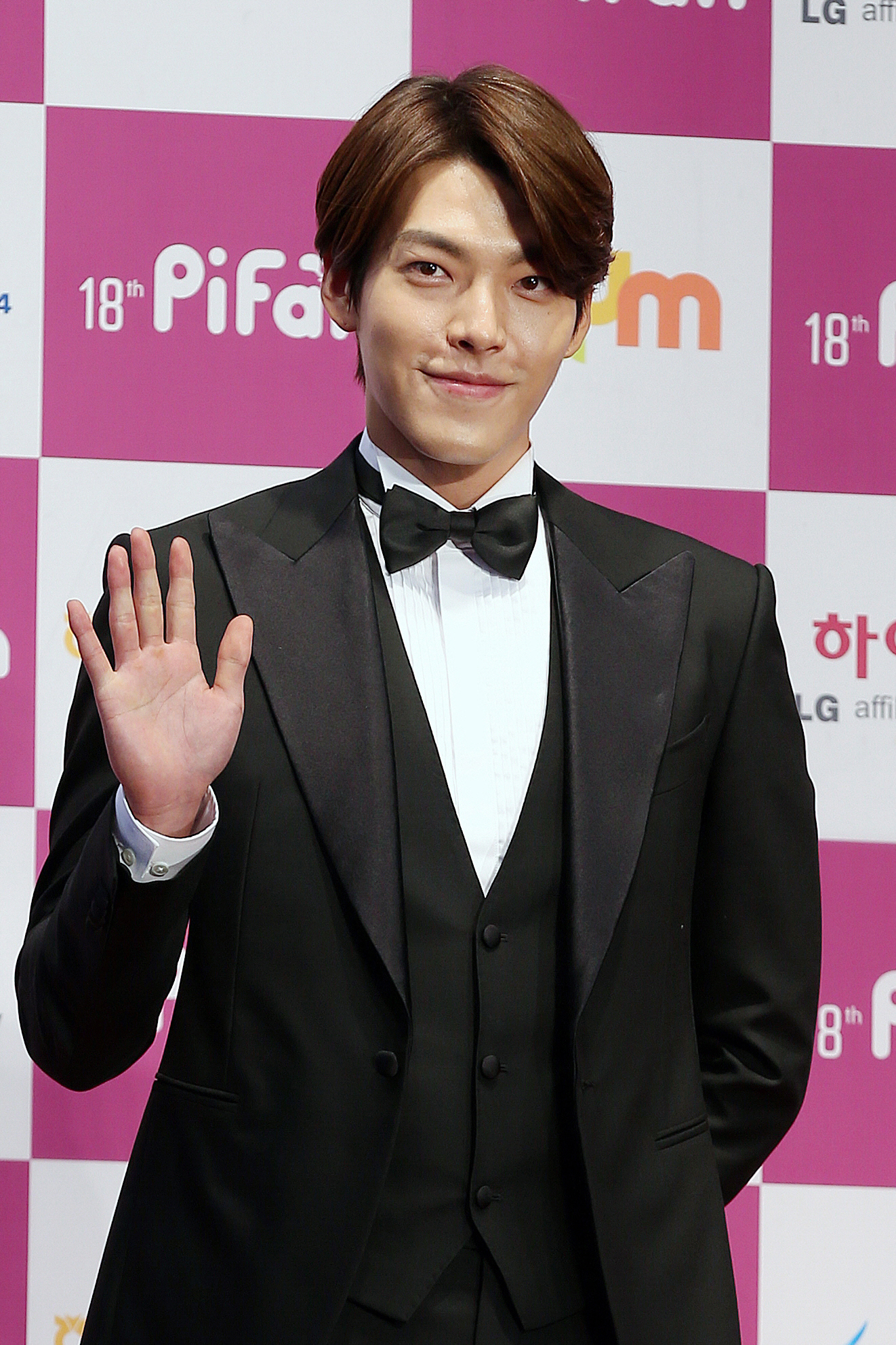 Actor Kim Woo-bin arrives at the red carpet event of the Pifan in Bucheon on July 17, 2014